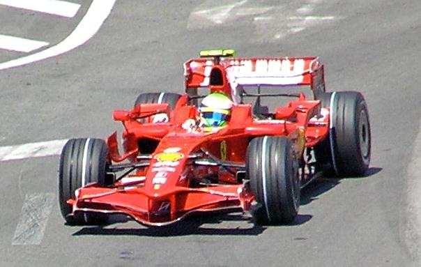 Felipe Massa driving for Scuderia Ferrari at the 2008 Monaco Grand Prix.